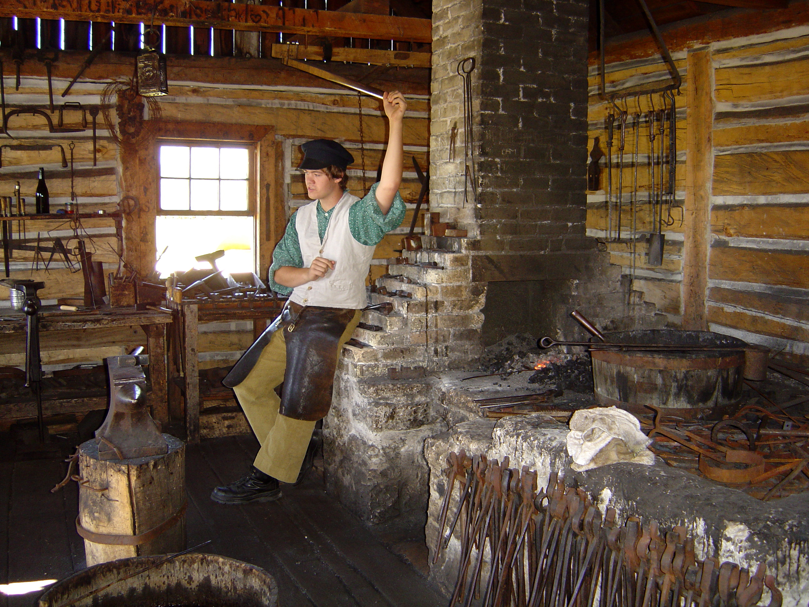 Lower Fort Garry, St. Andrews, Manitoba, Canada